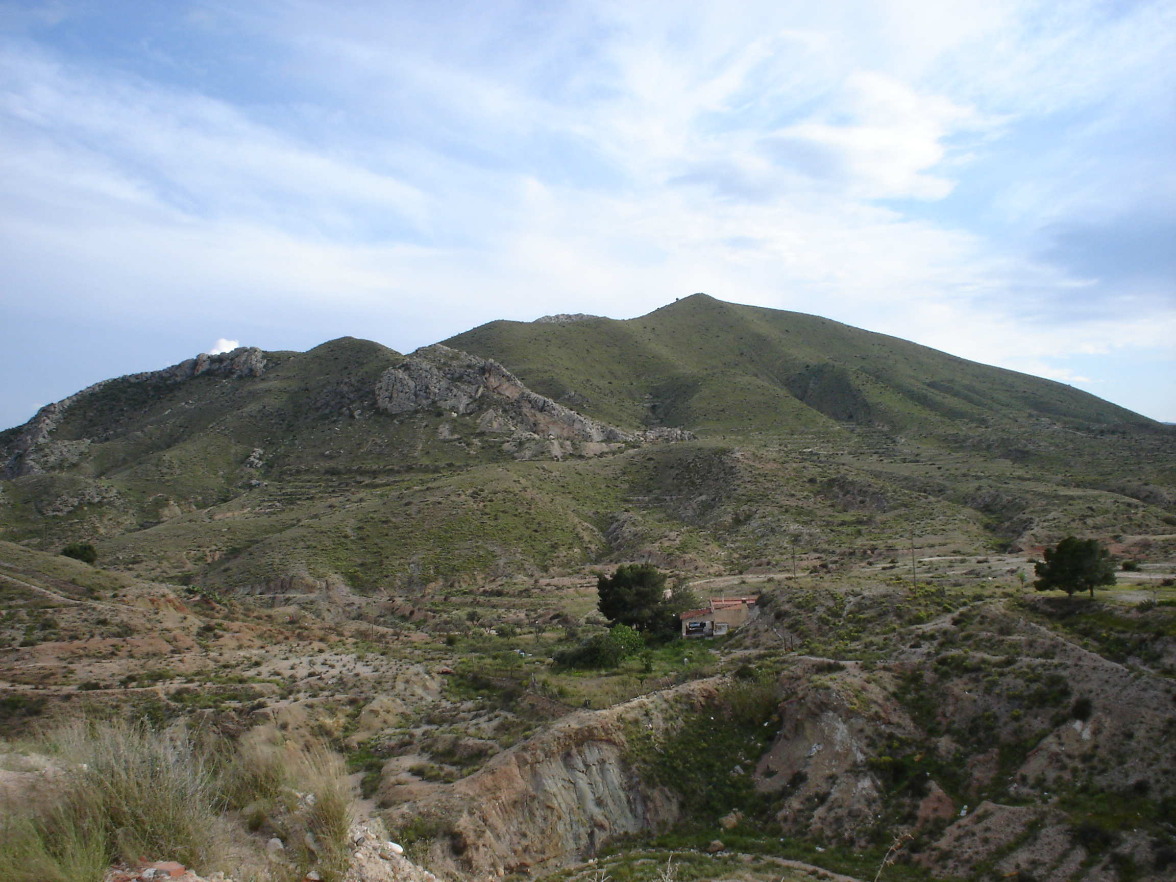 Mount Bolon, northridge.